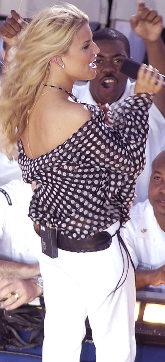 Picture of Simpson performing her song "Irresistible". This has been cropped, to exclude everything/everyone but her.